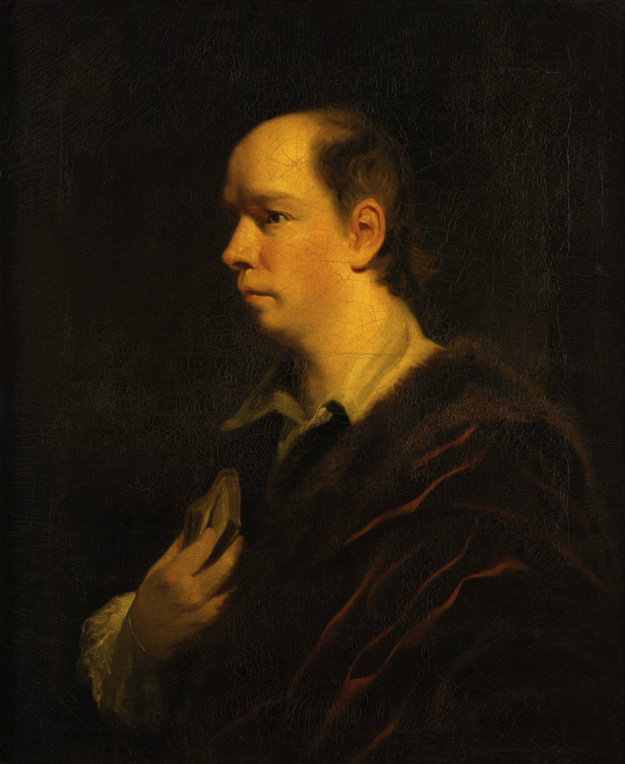 Oliver Goldsmith, after Sir Joshua Reynolds (died 1792). All images in this batch have been confirmed as author died before 1939 according to the official death date listed by the NPG.